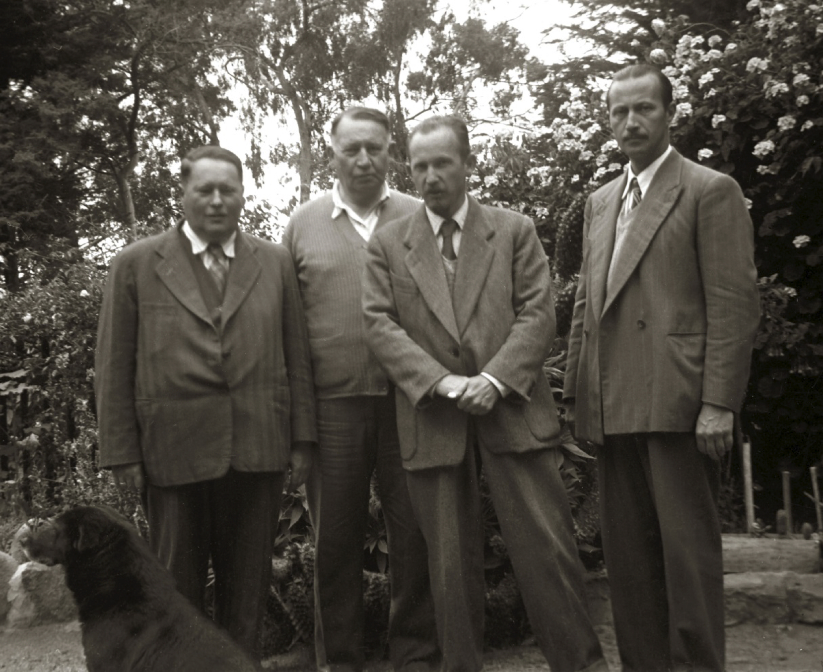 Original photo from family archives showing botanist Eberhard Kausel with colleagues in 1948.